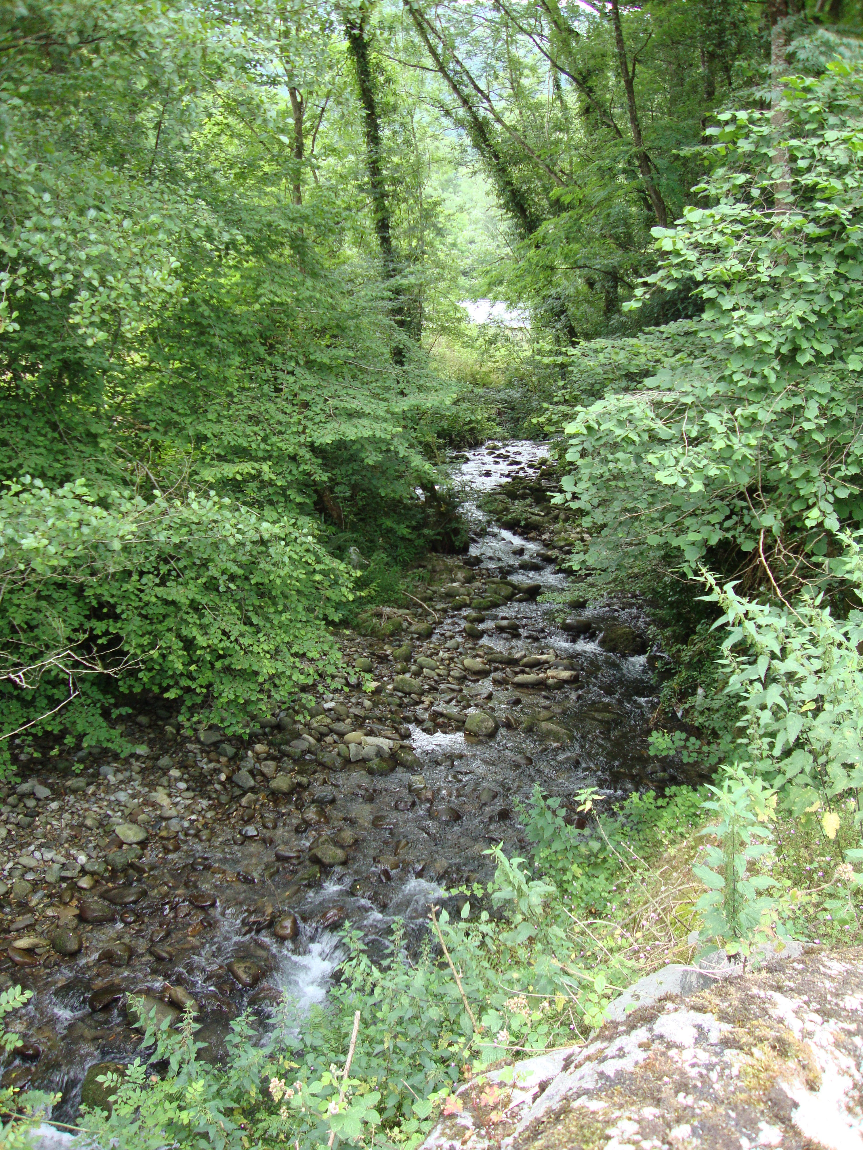 Lurbe-Saint-Christeau (Pyrénées-Atlaniques, France) - Ourtau River.